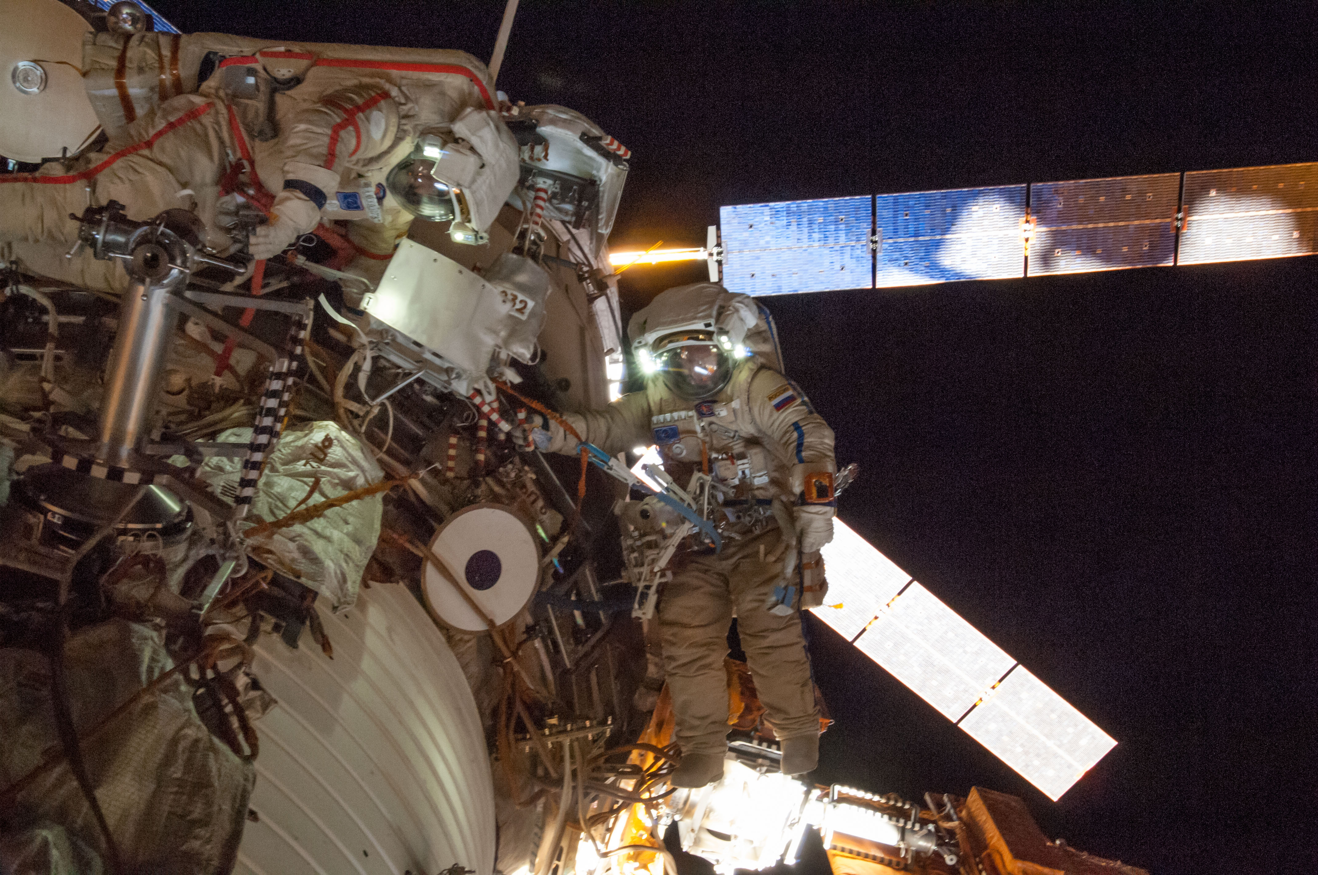 Russian cosmonauts Alexander Skvortsov (left, red stripes) and Oleg Artemyev, both Expedition 40 flight engineers, attired in Russian Orlan spacesuits, participate in a session of extravehicular activity (EVA) in support of science and maintenance on the International Space Station. During the five-hour, 11-minute spacewalk, Artemyev and Skvortsov deployed a small science satellite, retrieved and installed experiment packages and inspected components on the exterior of the orbital laboratory. Solar array wings on the "Georges Lemaitre" Automated Transfer Vehicle-5 (ATV-5) docked to the Zvezda Service Module are visible in the background.